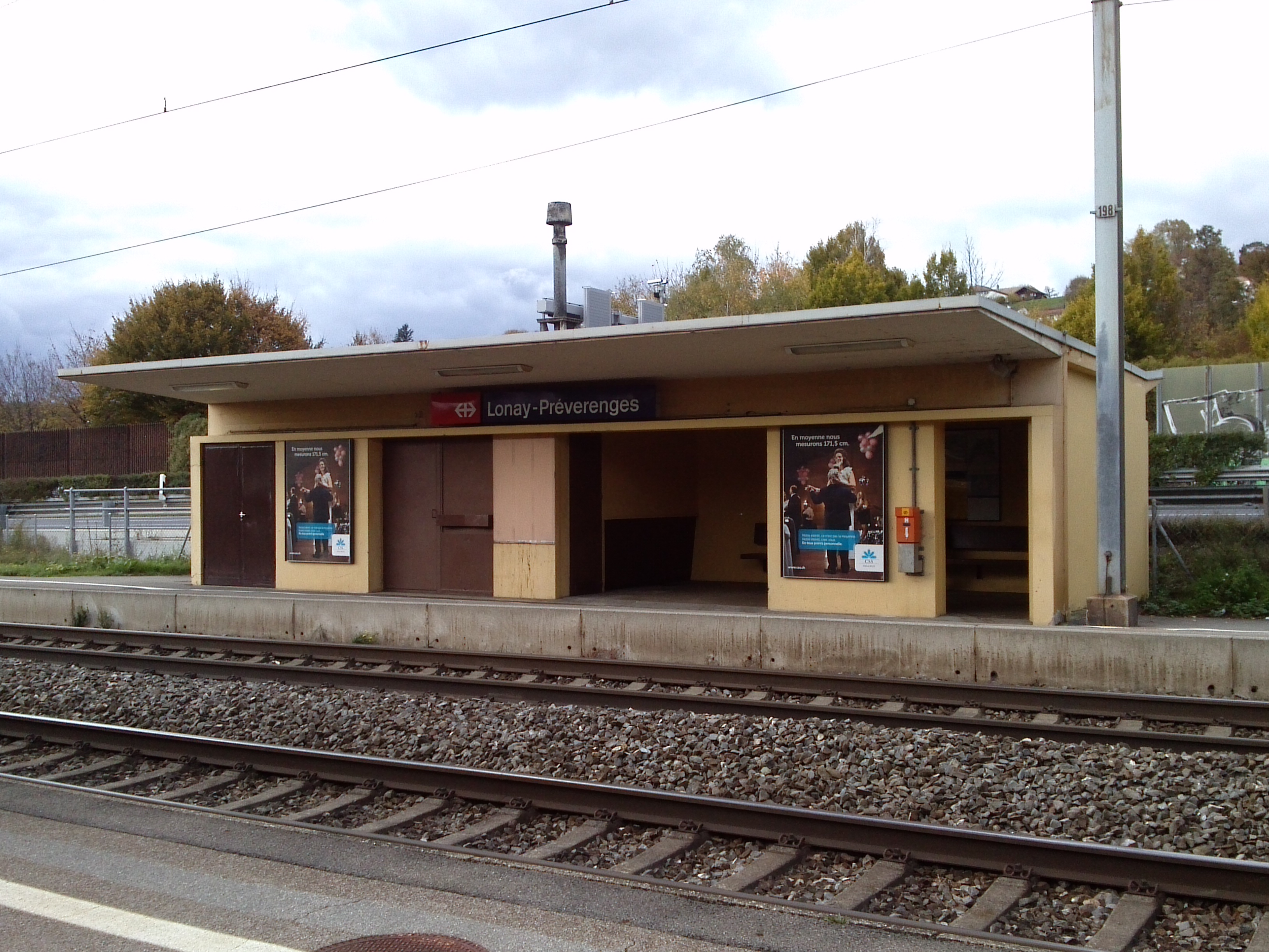 Passengers building on the platform of the track 2 at the SBB CFF FSS railway halt Lonay-Préverenges.